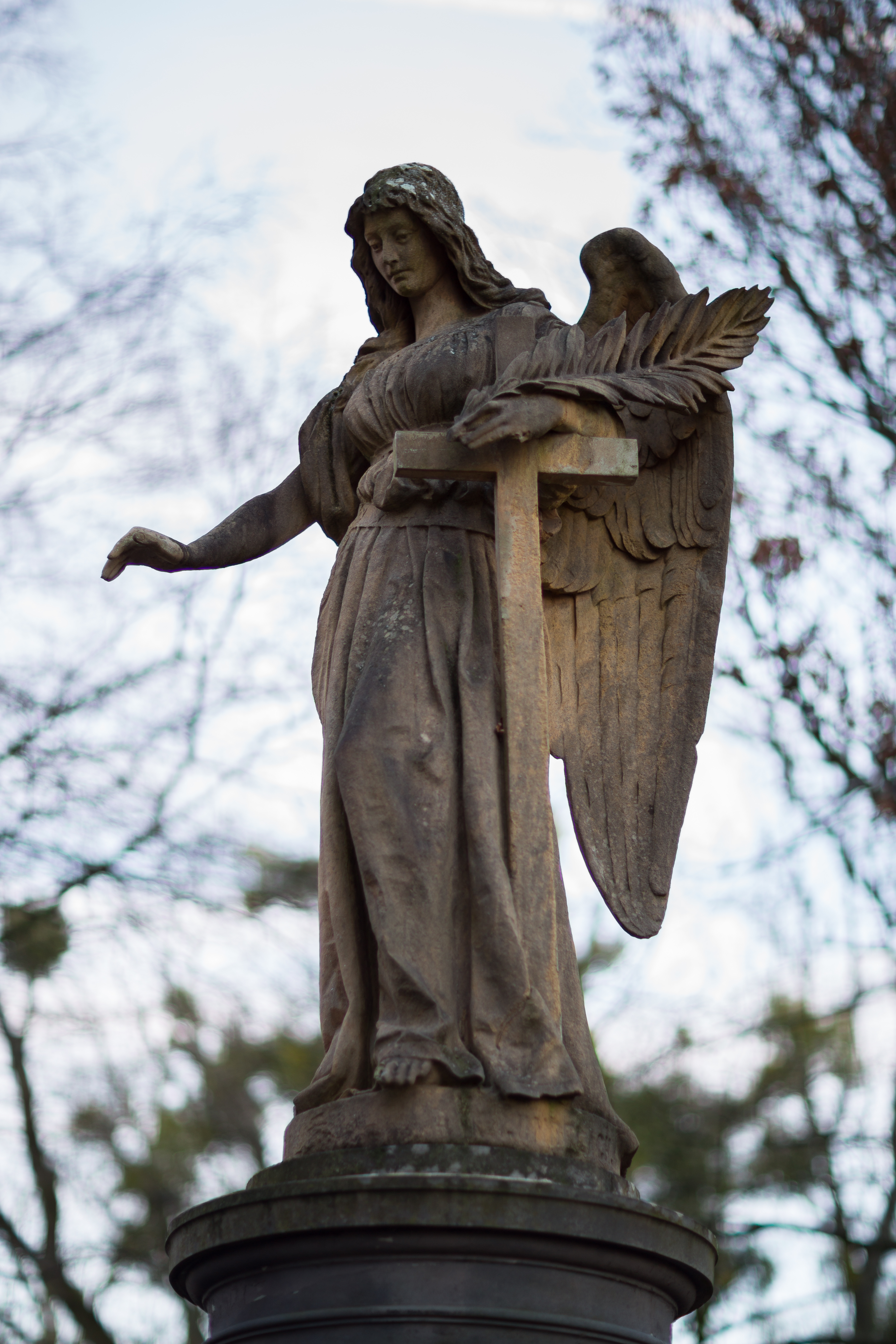 Sculpture “Friedensengel” (= angle of peace) at the Linden cemetery (located at Linden hill) in Linden-Mitte district of Hannover, Germany.